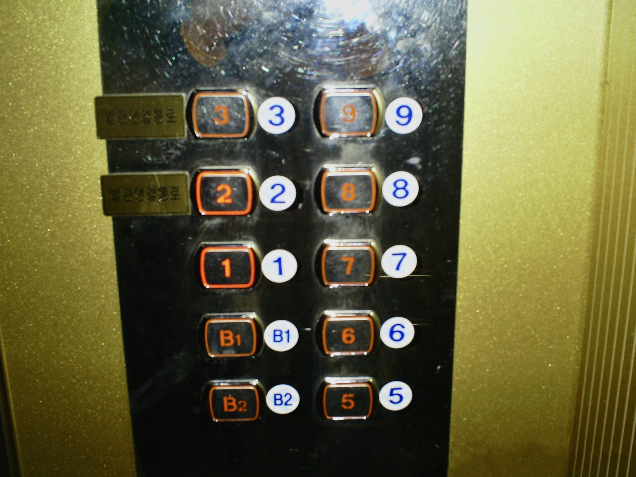 A hospital elevator in Sin-Jeong-Dong, Ulsan. 4th Floor Button is missing.